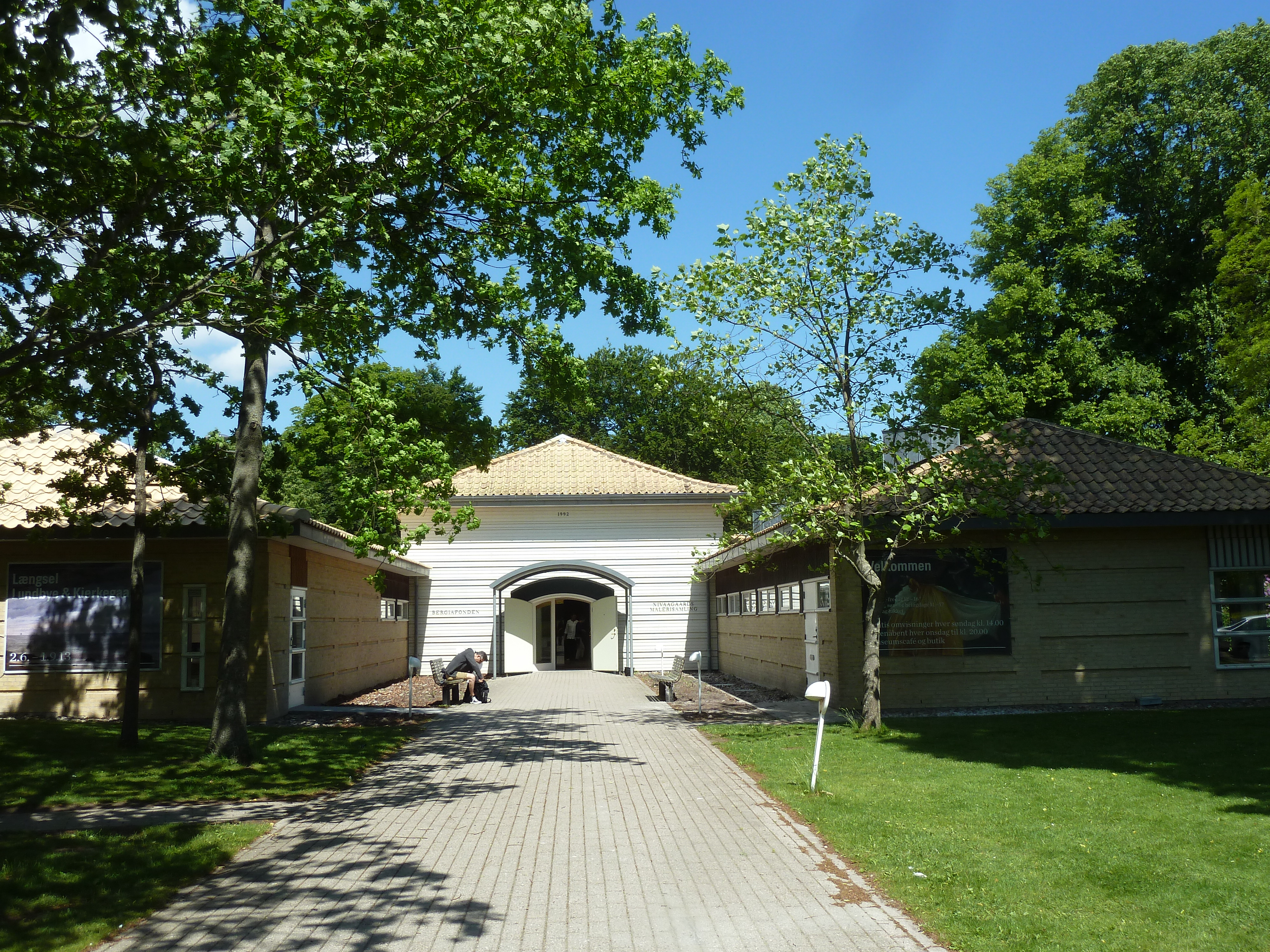 The modern wing of the museum at Nivaagaard in Nivå, Denmark Nivaagaard Museum Native nameNivaagaards MalerisamlingLocationNivå, DenmarkCoordinates55° 55′ 36.84″ N, 12° 30′ 38.52″ E Established1908Web page control : Q10601378 VIAF: 144272183 ISNI: 0000 0001 2331 6970 LCCN: n84090937 WorldCat institution QS:P195,Q10601378